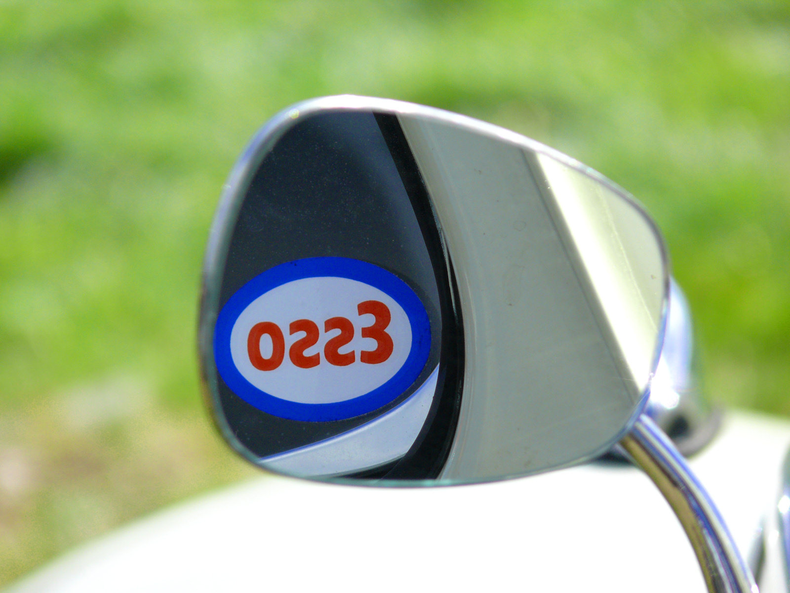 An old rear view mirror reflecting the "Esso"-logotype.